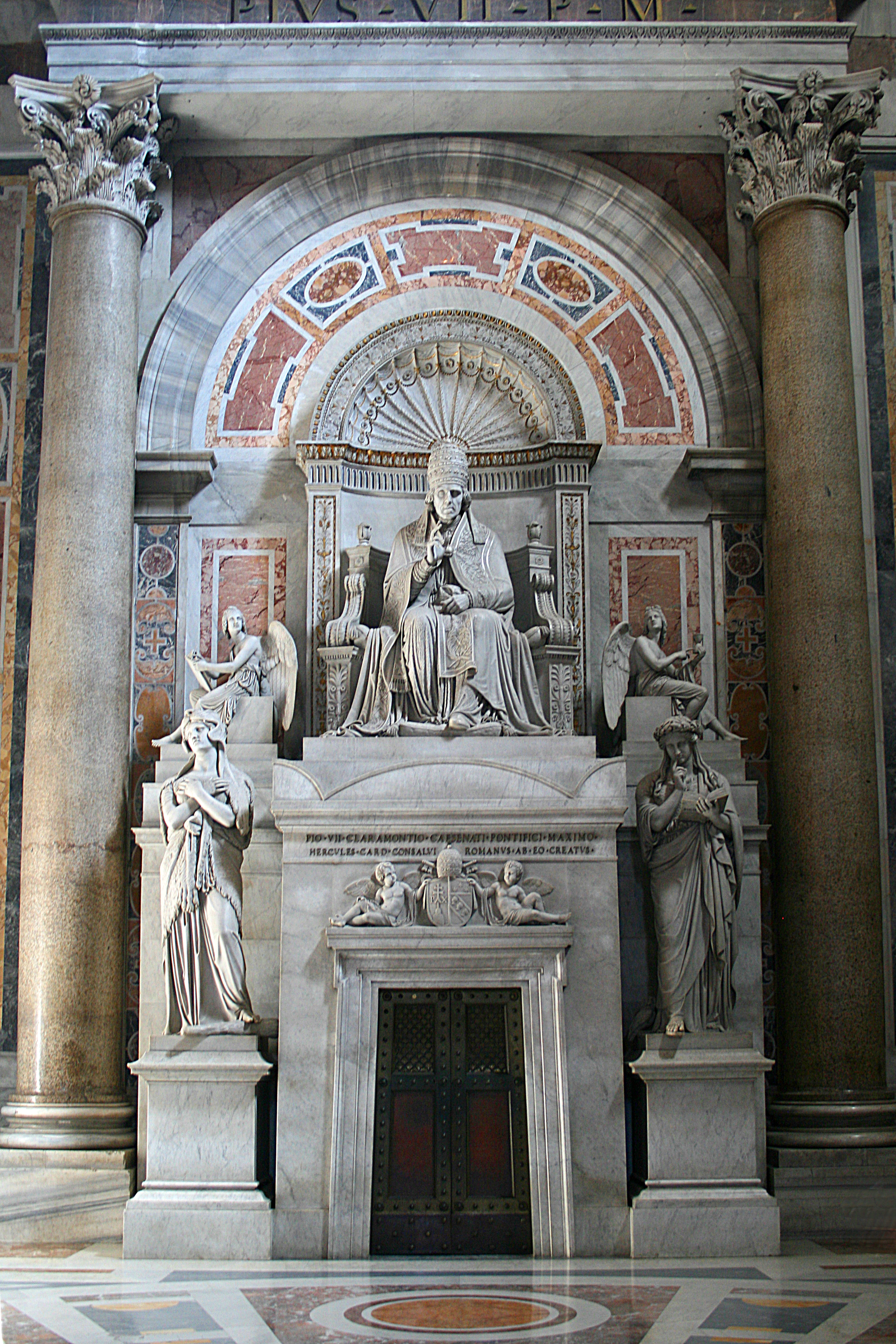 Tombstone of Pope Alexander VII, St. Peter's Basilica, Vatican (1702) - Work of Bertel Thorvaldsen (1770–1844).